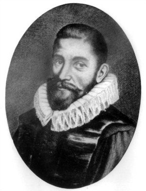 Willebrord Snell